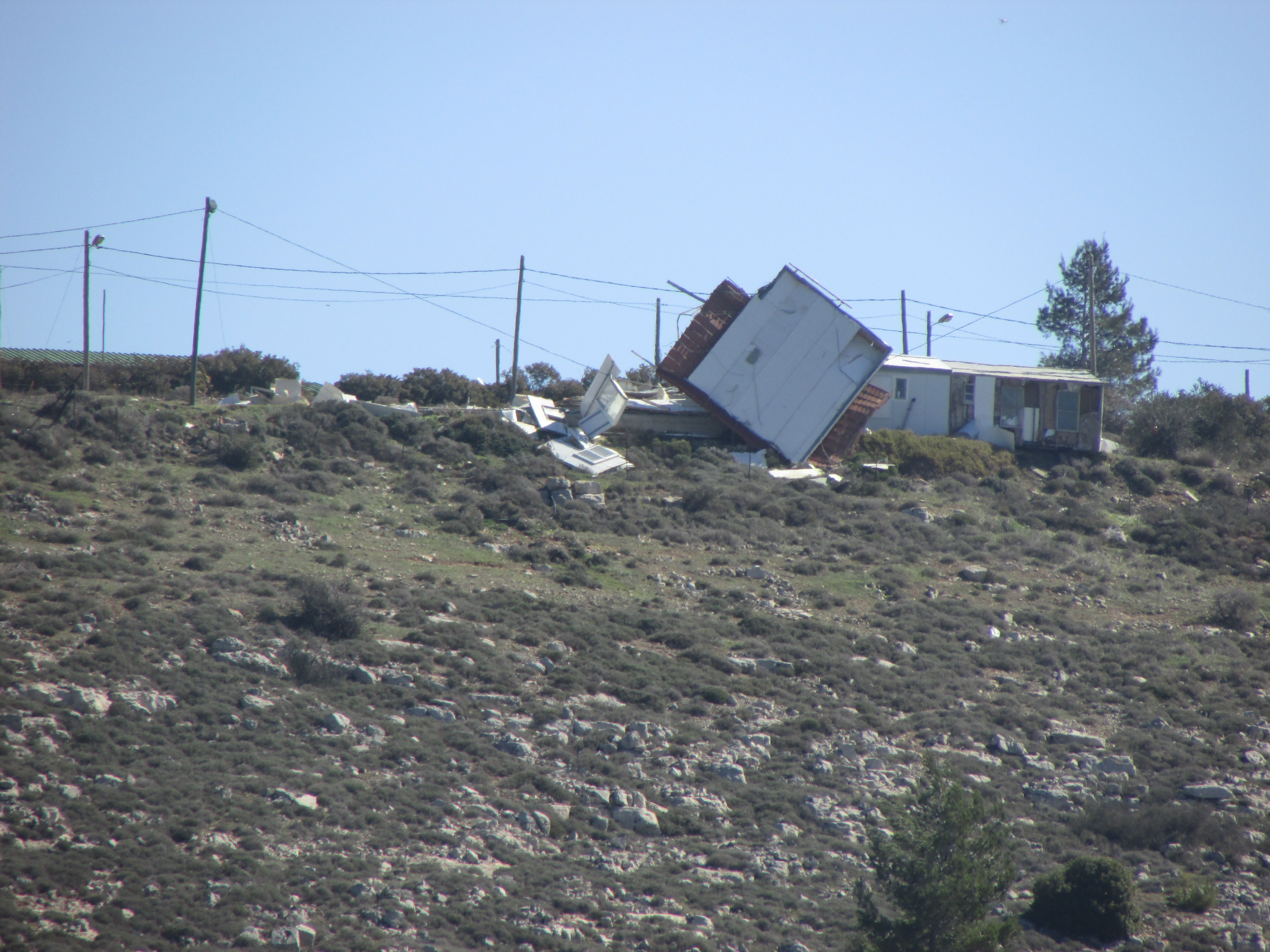 Evacuation of Amona. After removing the movable prefab, this is what remains from the house.